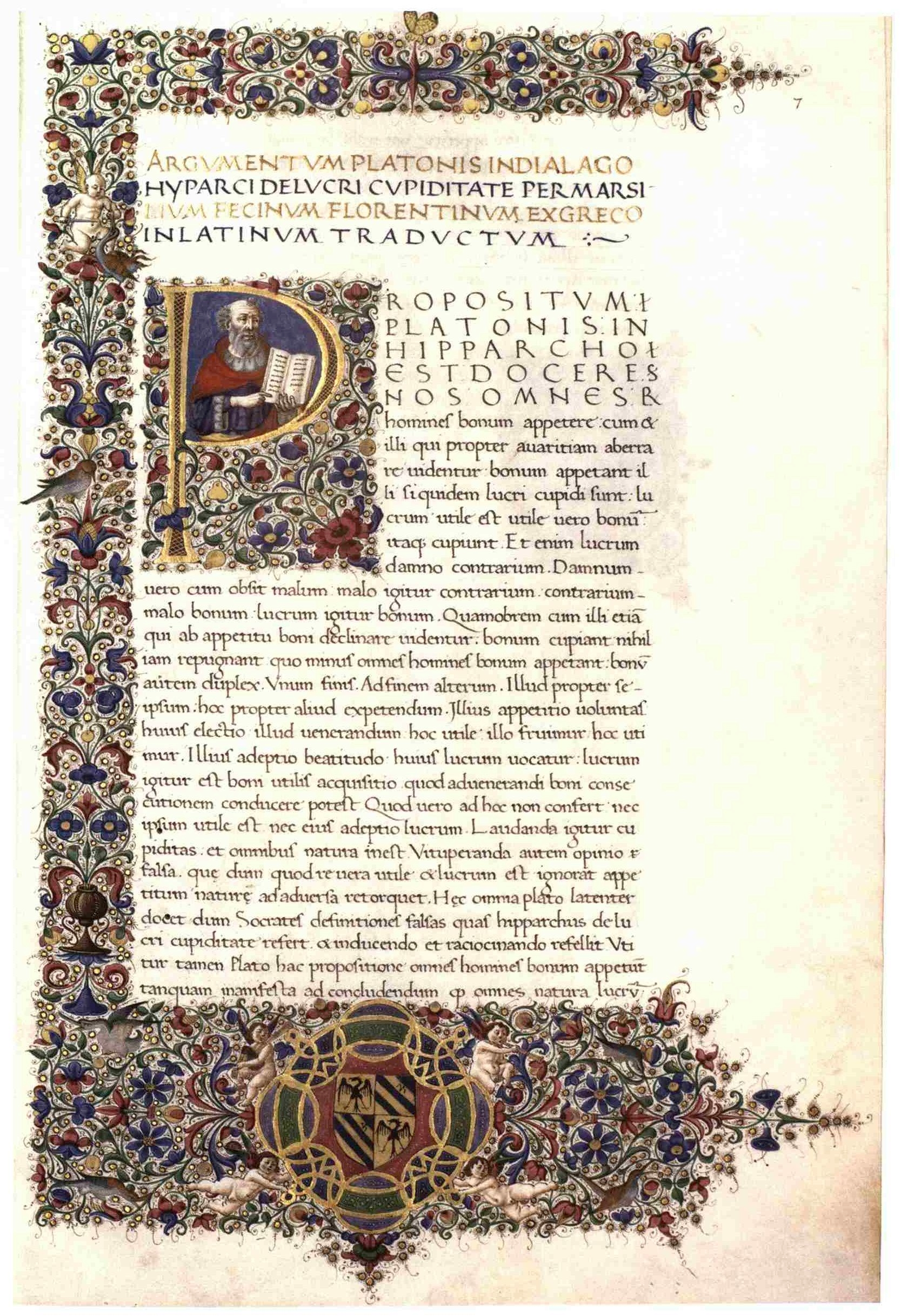 Ficino’s introduction („argumentum“) to his Latin translation of the dialogue Hipparchus in the manuscript Vatican City, Biblioteca Apostolica Vaticana, Urb. lat. 185, fol. 7r.